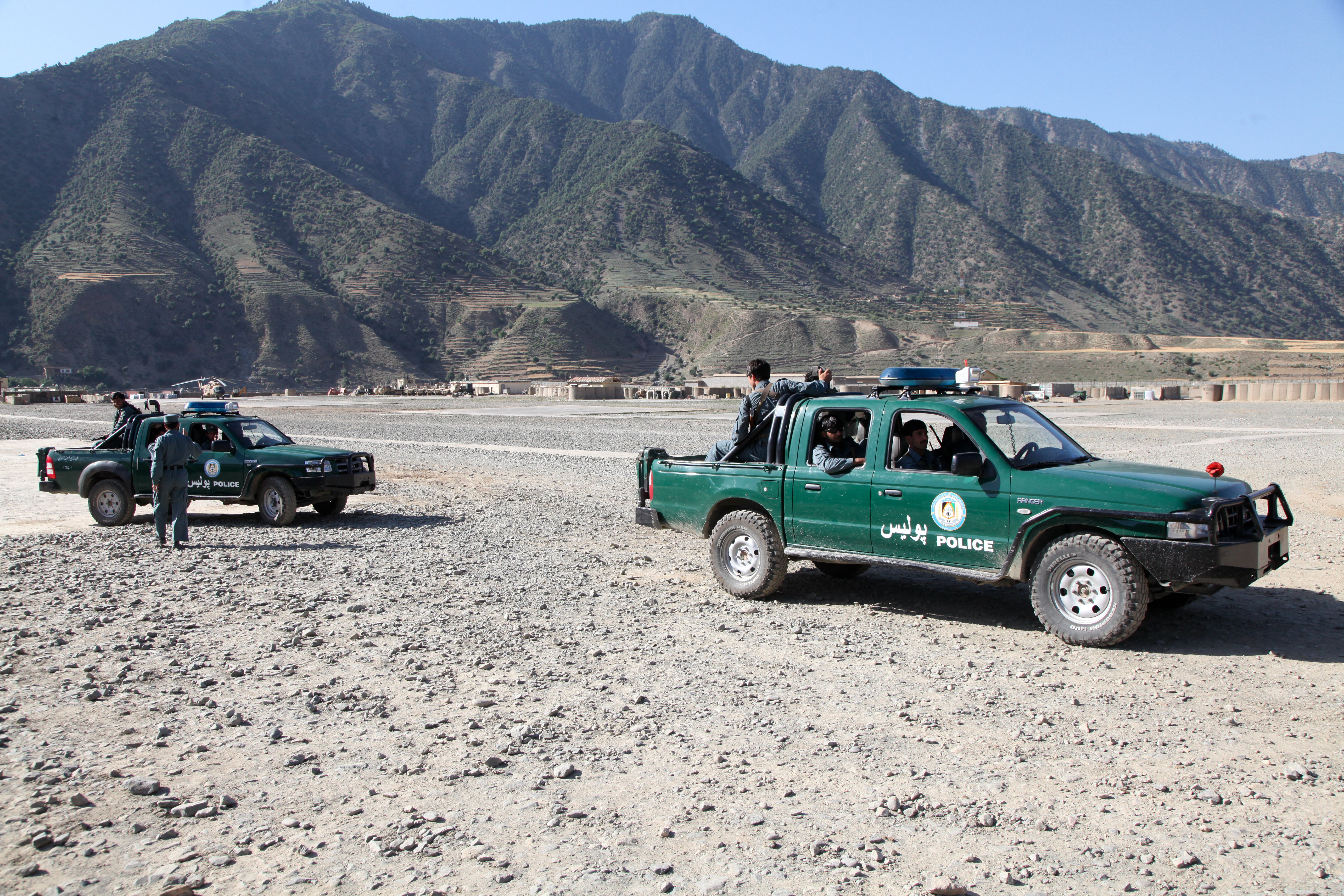 Members of Afghan Uniformed Police receive final orders before departing on patrol to visit Shamair Girls School, Kunar province, Afghanistan, May 29, 2012. U.S. soldiers and AUP deliver school supplies and meet with school key leaders. (Photo ID: 593308)